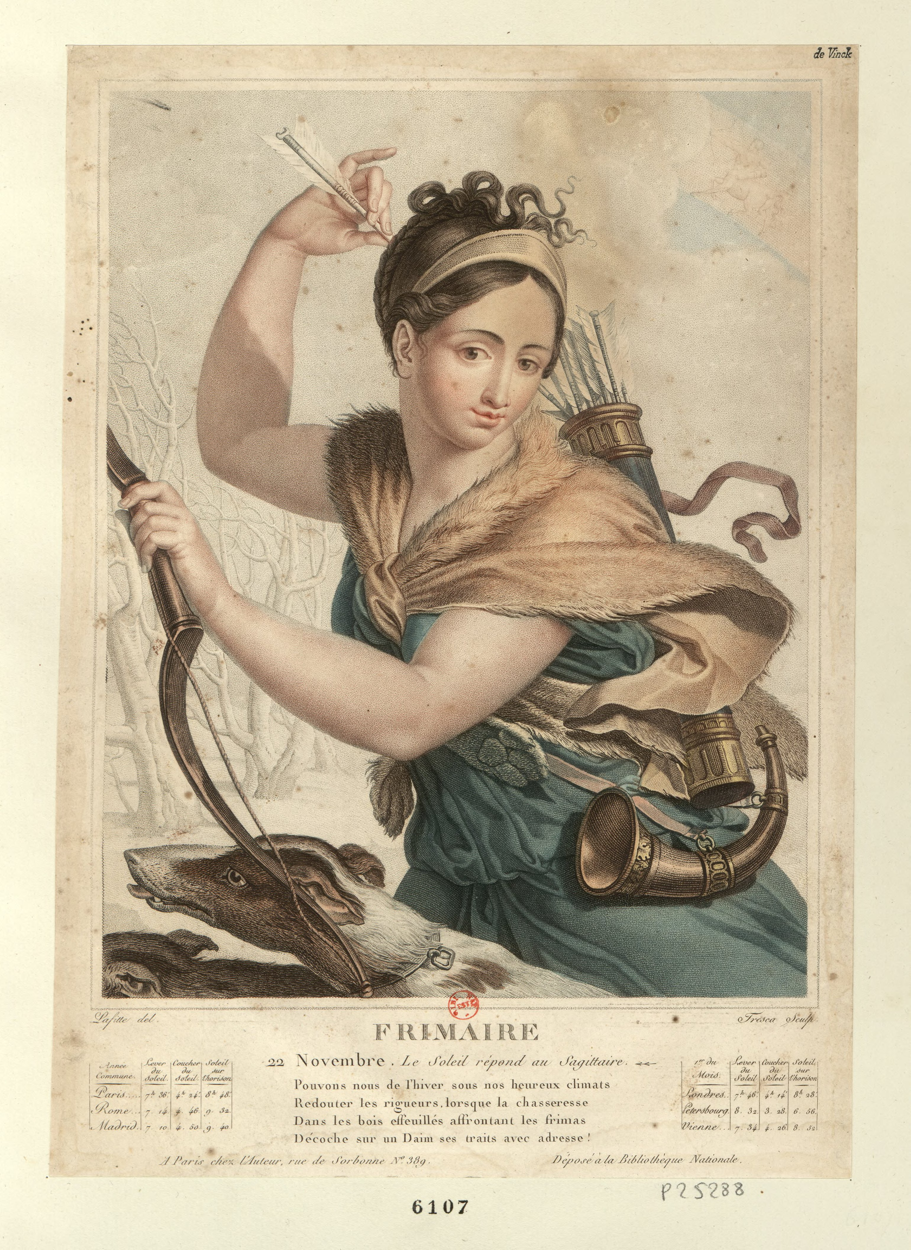 Allegory of Frimaire (republican French calendar month).